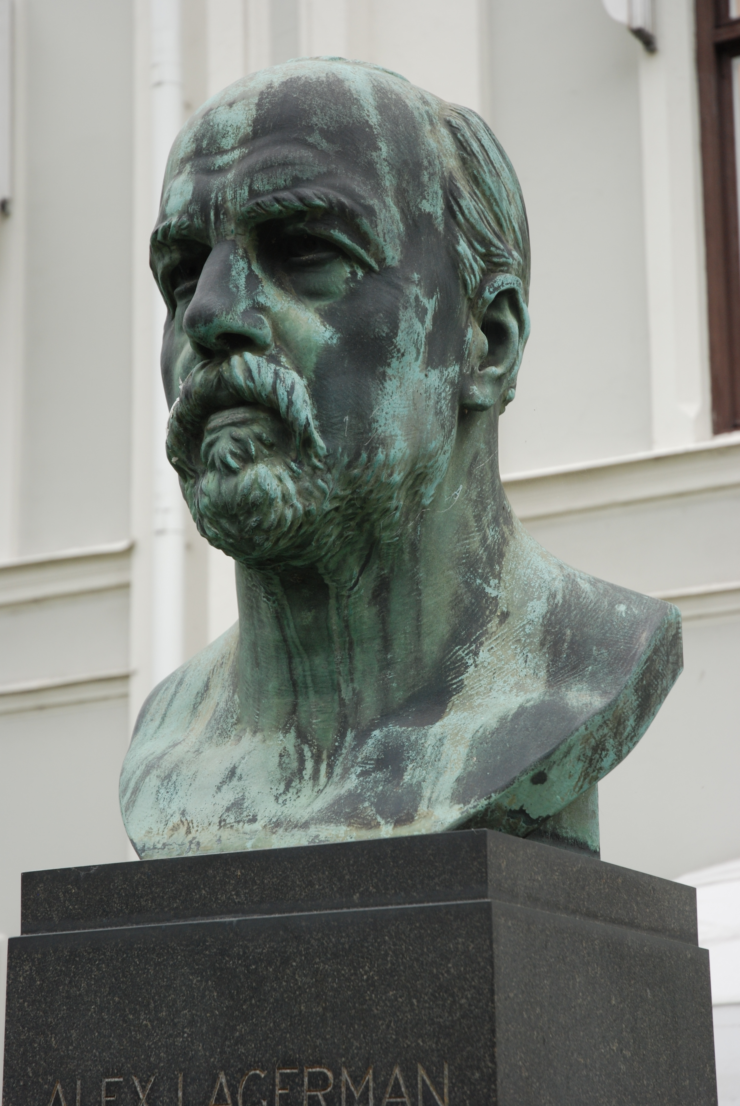 Bust of Alexander Lagerman by Carl Christensen, 1936, in front of old match factory in Jönköping